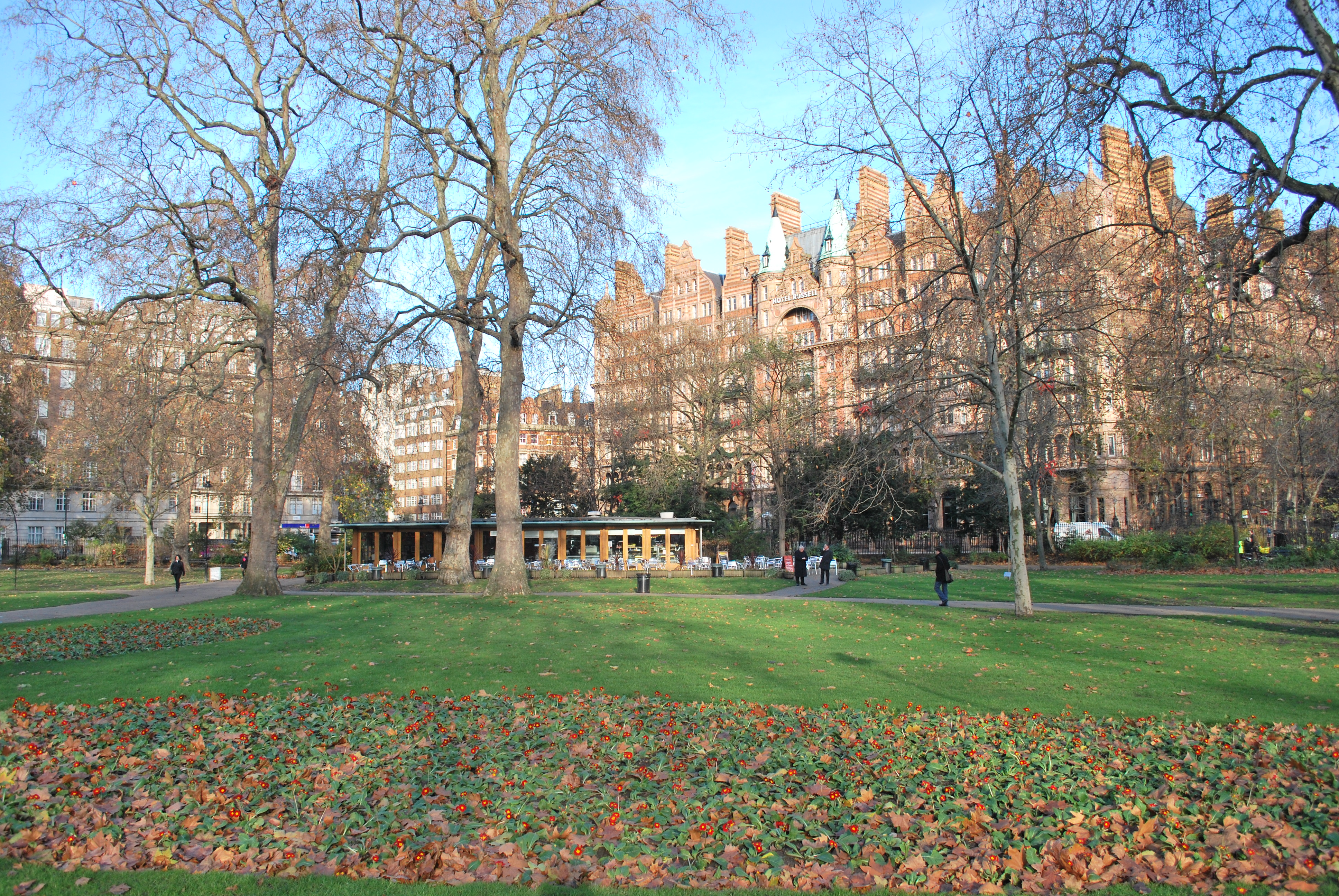 Russell Square, seen to the north east